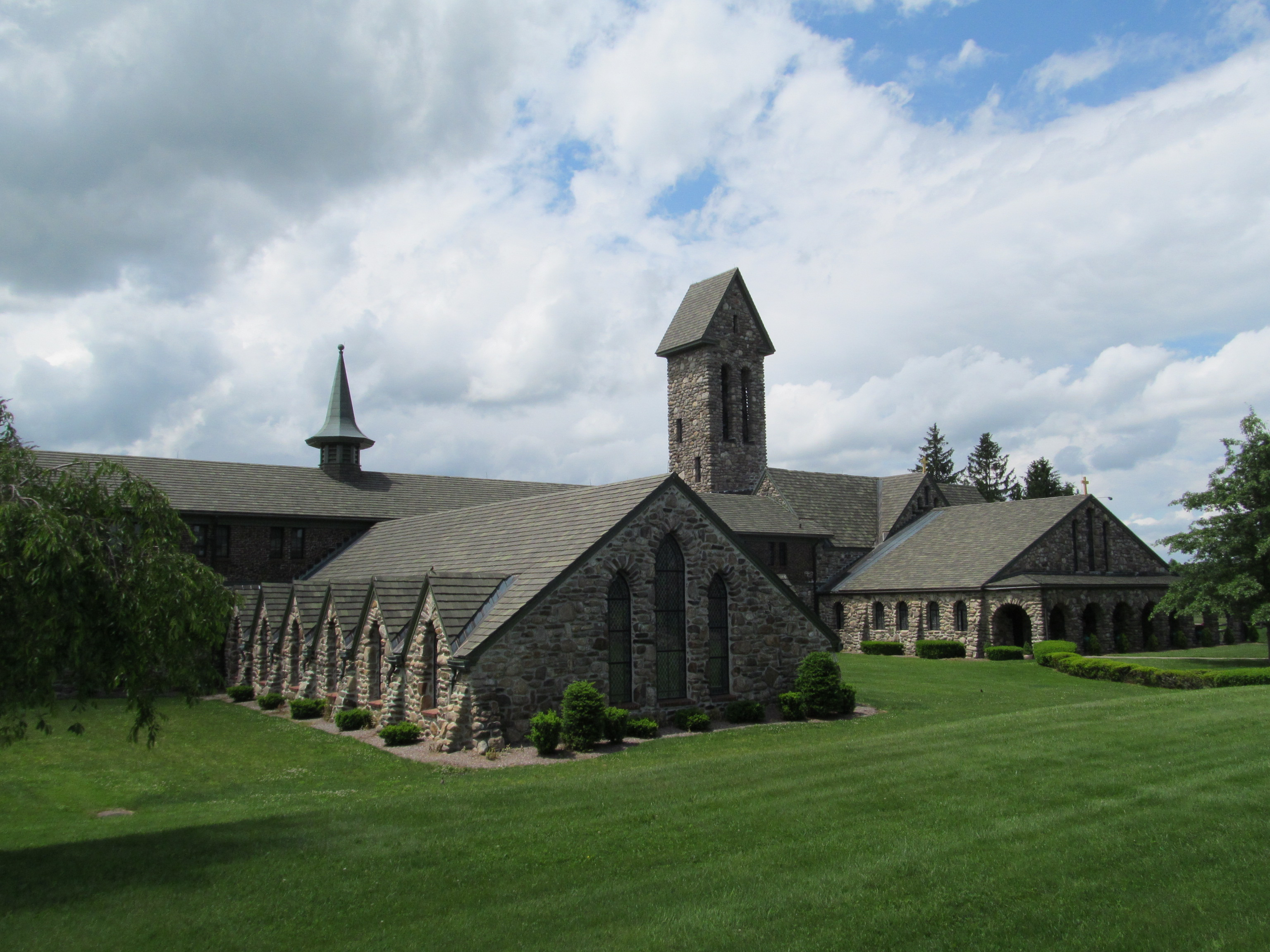 St Josephs Abbey, Spencer Massachusetts